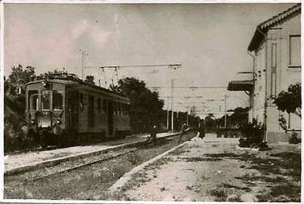 Codevilla railway station - 2